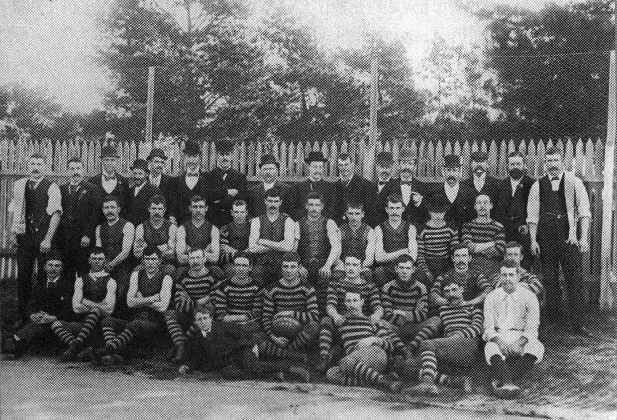 Port Melbourne FC team before playing Footscray.